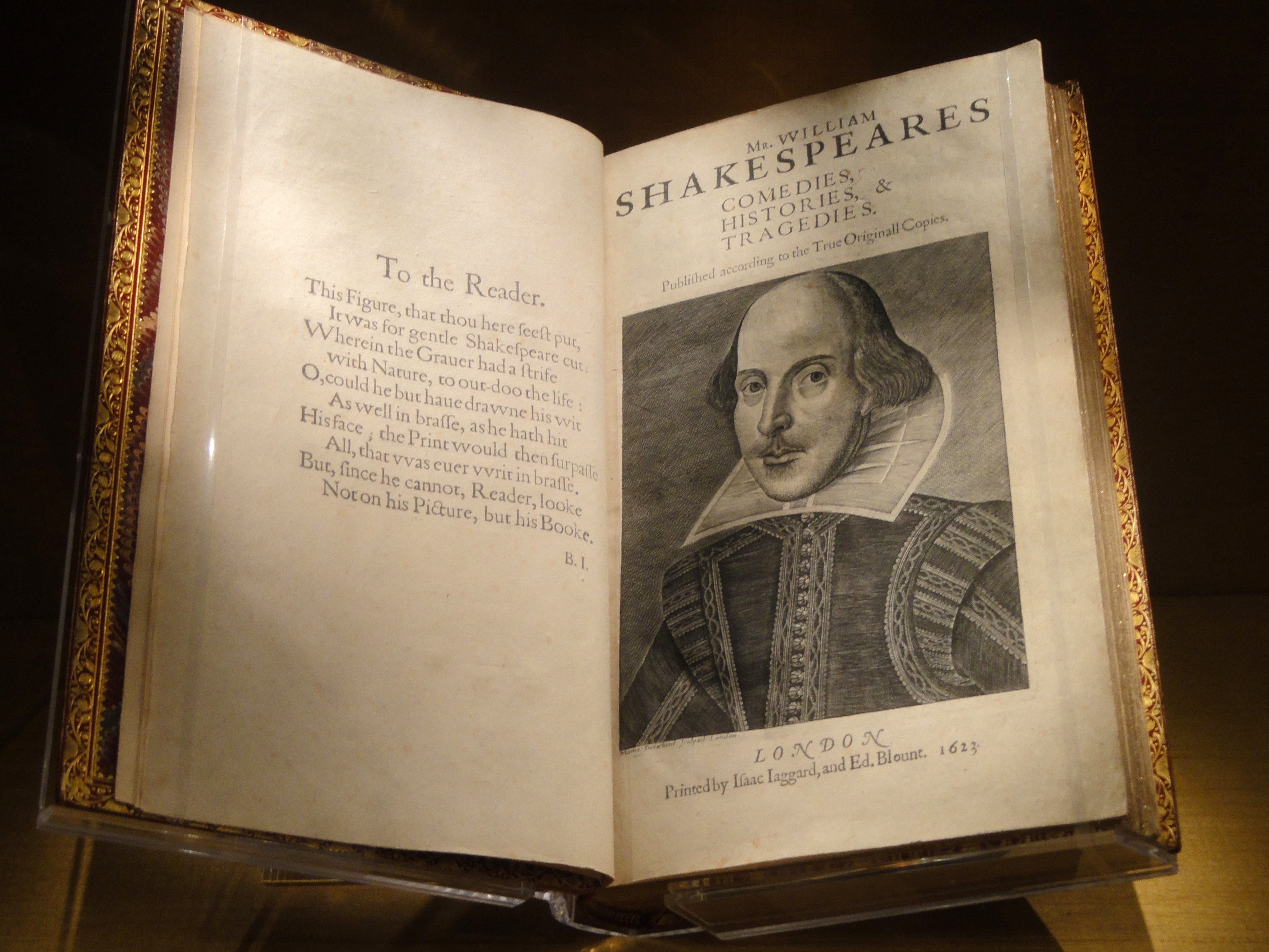 First Folio in the Folger Shakespeare Library, Washington, DC, USA.